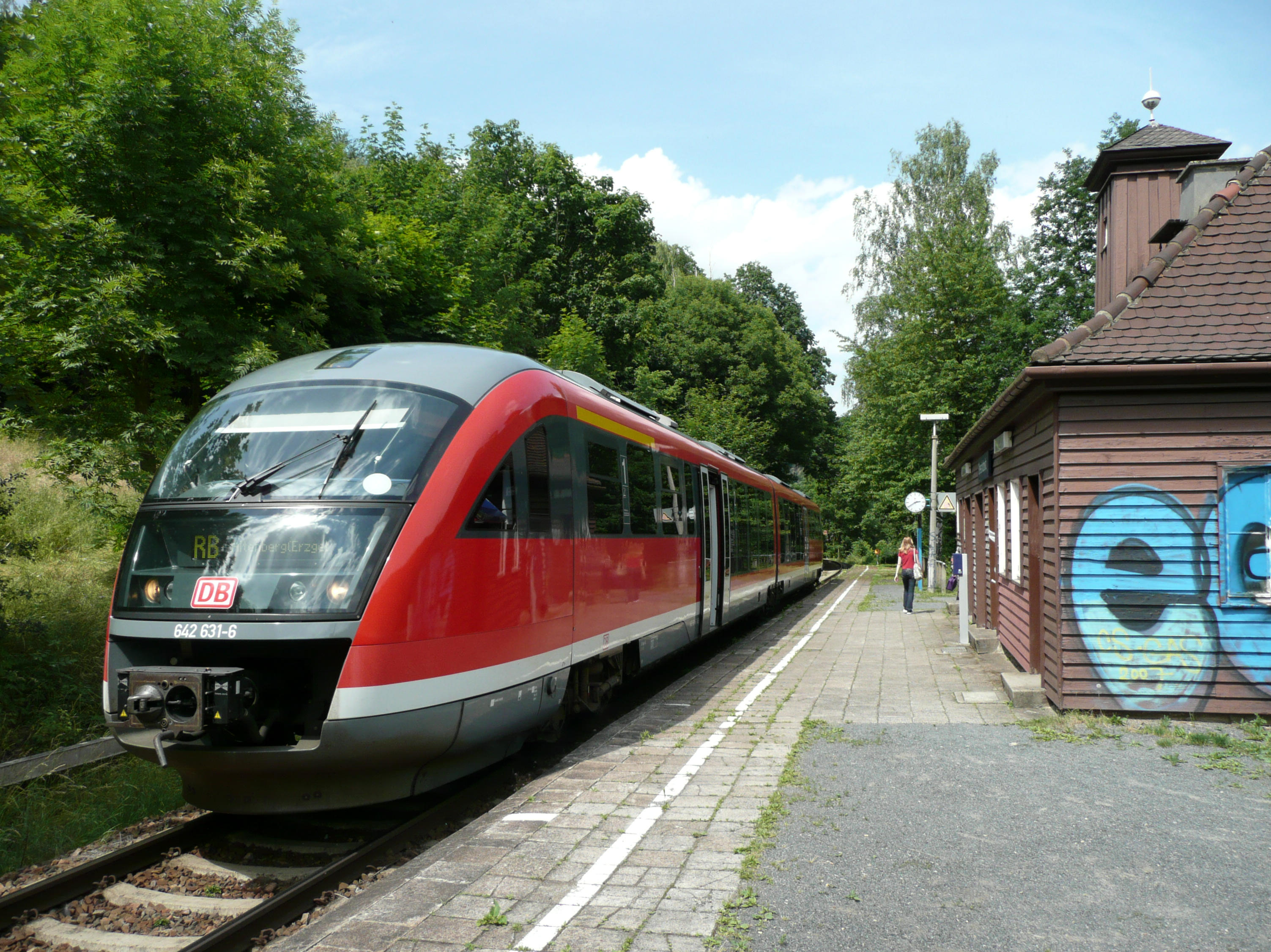 This image shows a multiple unit class 642 of the Deutsche Bahn in Oberschlottwitz (railway Heidenau - Altenberg (Müglitztalbahn)).